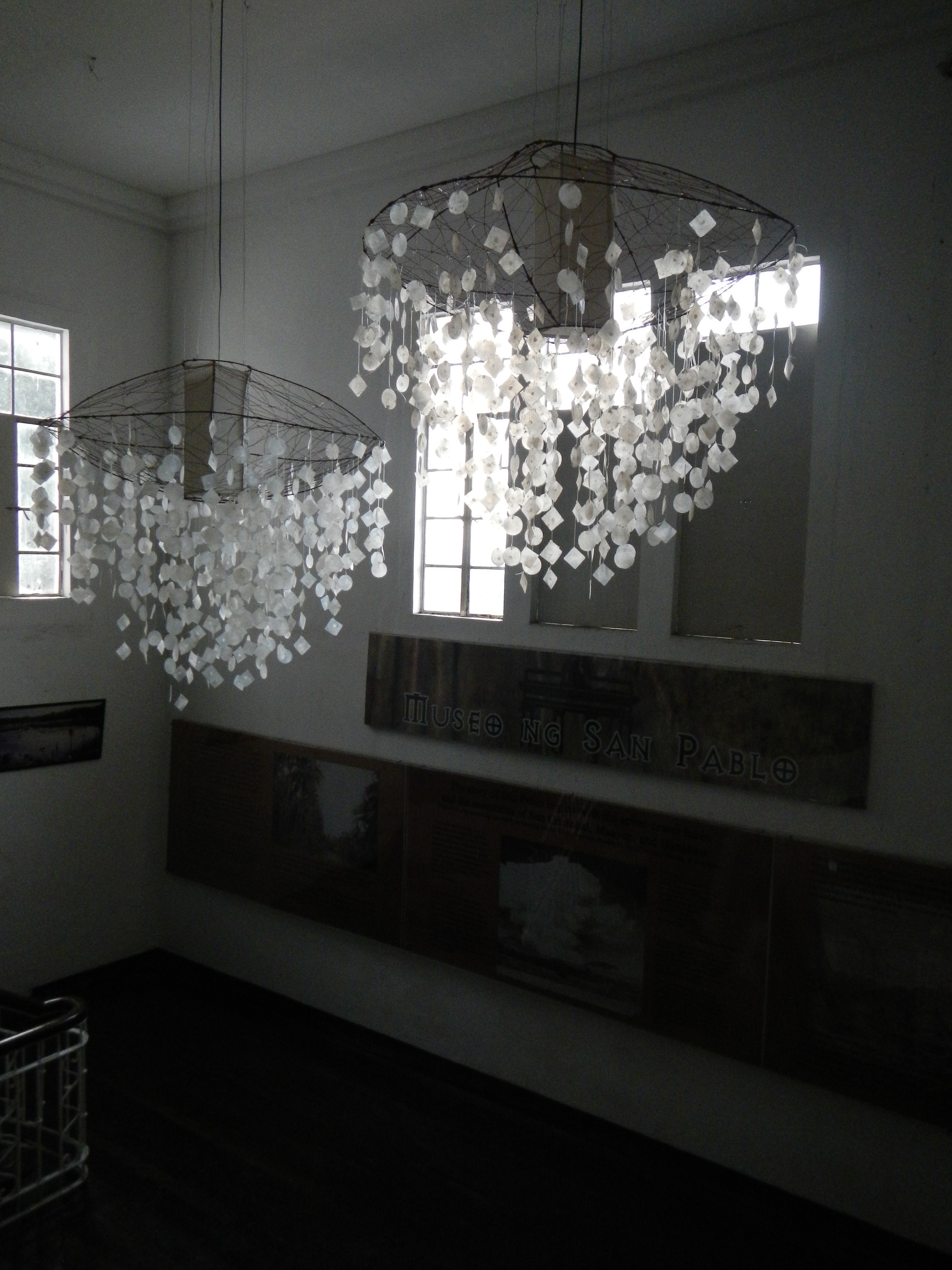 Museo de San Pablo (3rd and 4th floors of the Old Municipal Building) - San Pablo City Hall Complex and Museum[1] -- San Pablo City has 2 City Halls: a) the Old Municipio which houses the Museo de San Pablo and b) the New City Hall - the City Hall Complex includes the Park and other Government Offices plus the Gymnasium or Covered Court--- San Pablo, Laguna [2] [3] [4] [5] [6] 14° 4' 11.11" N 121° 19' 34.88" E [7] Coordinates: 14°4'10"N 121°19'36"E [8] List of Parishes of the Roman Catholic Diocese of San Pablo Rector: Msgr. Melchor A. Barcenas, VGParochial Vicars: Father Michael V. Brosas Father Rico A. Villareal - EPISCOPAL DISTRICT III Episcopal Vicar: Msgr. Mario Rafael M. Castillo, HP - Vicar Forane: Father Eduardo E. Arupo [9] -- The City of San Pablo (Filipino: Lungsod ng San Pablo), a first class city in the southern portion of Laguna province, Philippines, is one of the country's oldest cities - more popularly known as the "City of Seven Lakes", referring to the Seven Lakes of San Pablo [10](Filipino: Lungsod ng Pitong Lawa): Lake Sampaloc [11] (or Sampalok), Lake Palakpakin, Lake Bunot, Lakes Pandin and Yambo, Lake Muhikap, and Lake Calibato. San Pablo City was part of the Roman Catholic Archdiocese of Lipa since 1910. On November 28, 1967, it became an independent diocese and became the Roman Catholic Diocese of San Pablo.